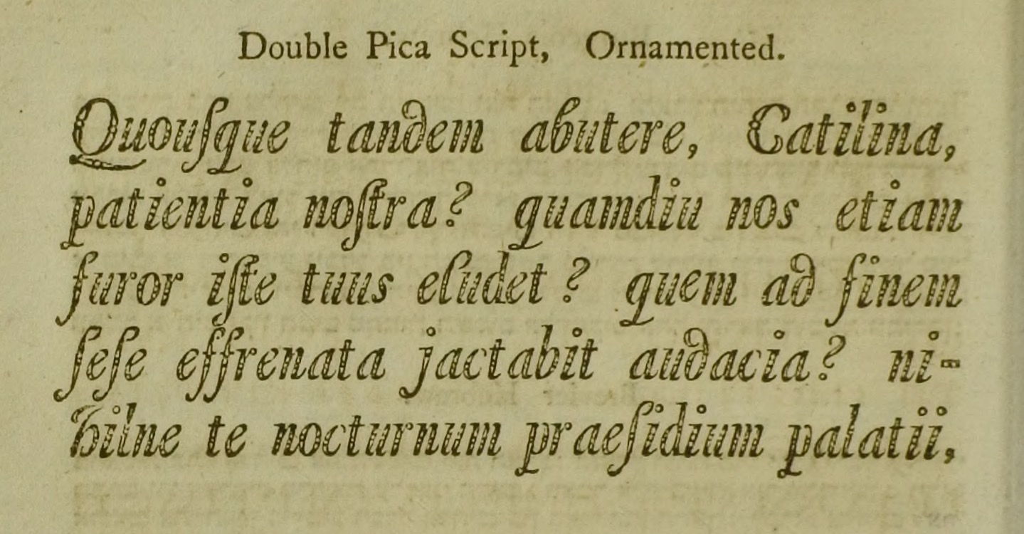 Sample of the script typeface Union Pearl, issued by a London type foundry around the beginning of the eighteenth century. Here shown in the specimen of the Fry Type Foundry issued with a reprint of John Smith's Printer's Grammar, published in 1787 by T. Evans. For background on the book, see James Mosley and for the typeface see John A. Lane's article “The Origins of Union Pearl” (1992).